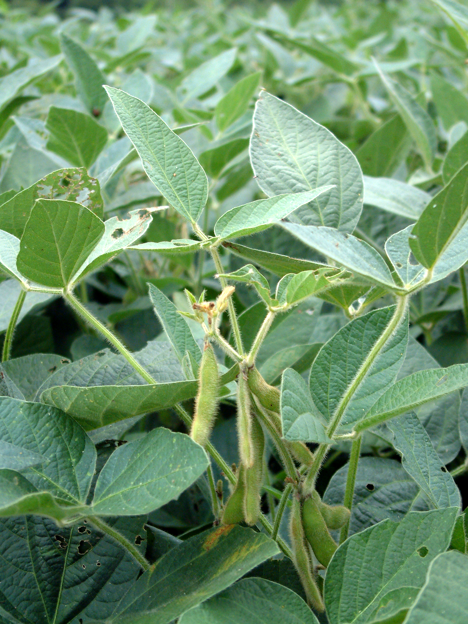 Soybean plants, photographed along County Road 650 South in southern Pike Township in Warren County, Indiana.